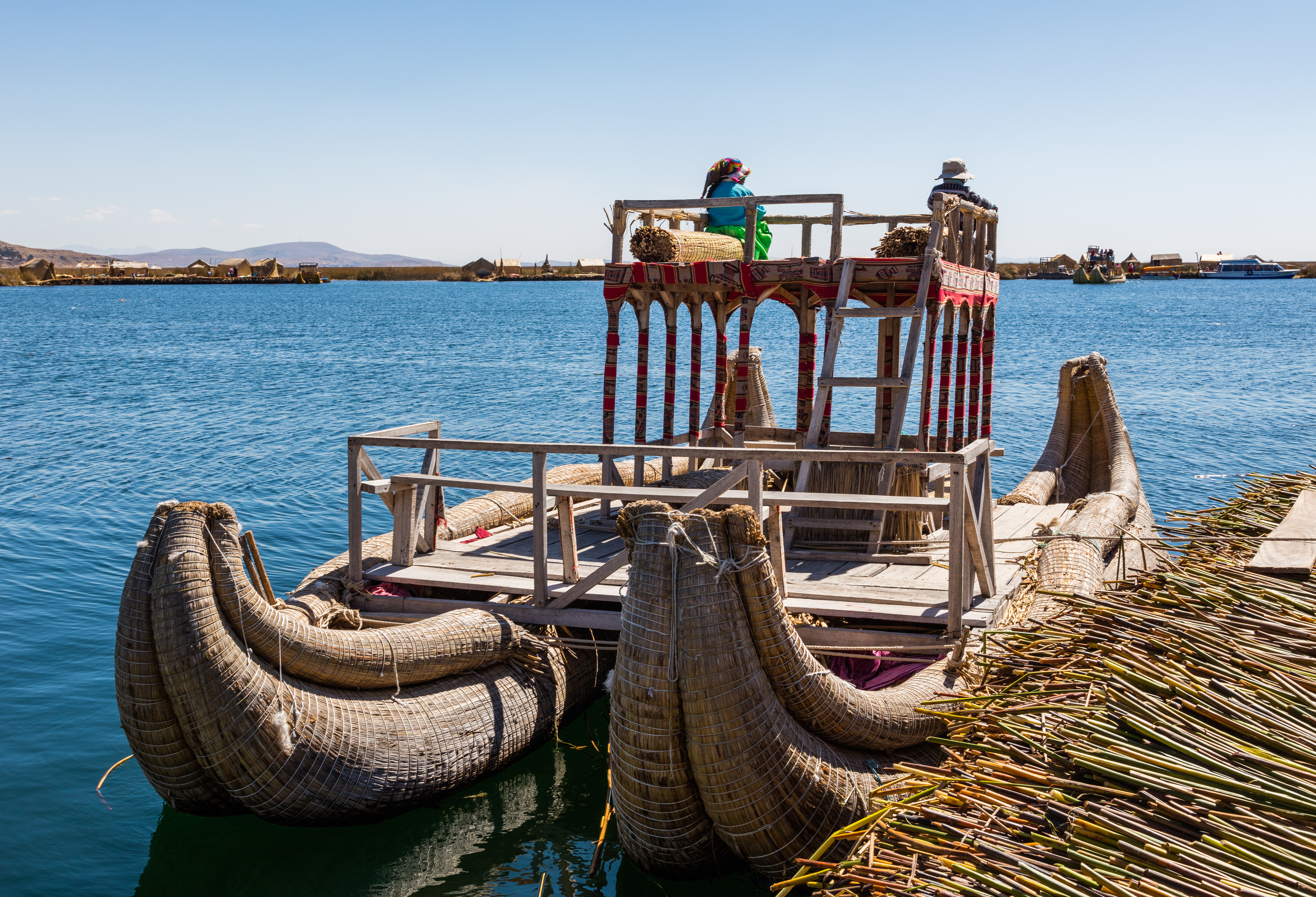 Uros floating islands, Titicaca Lake, Peru